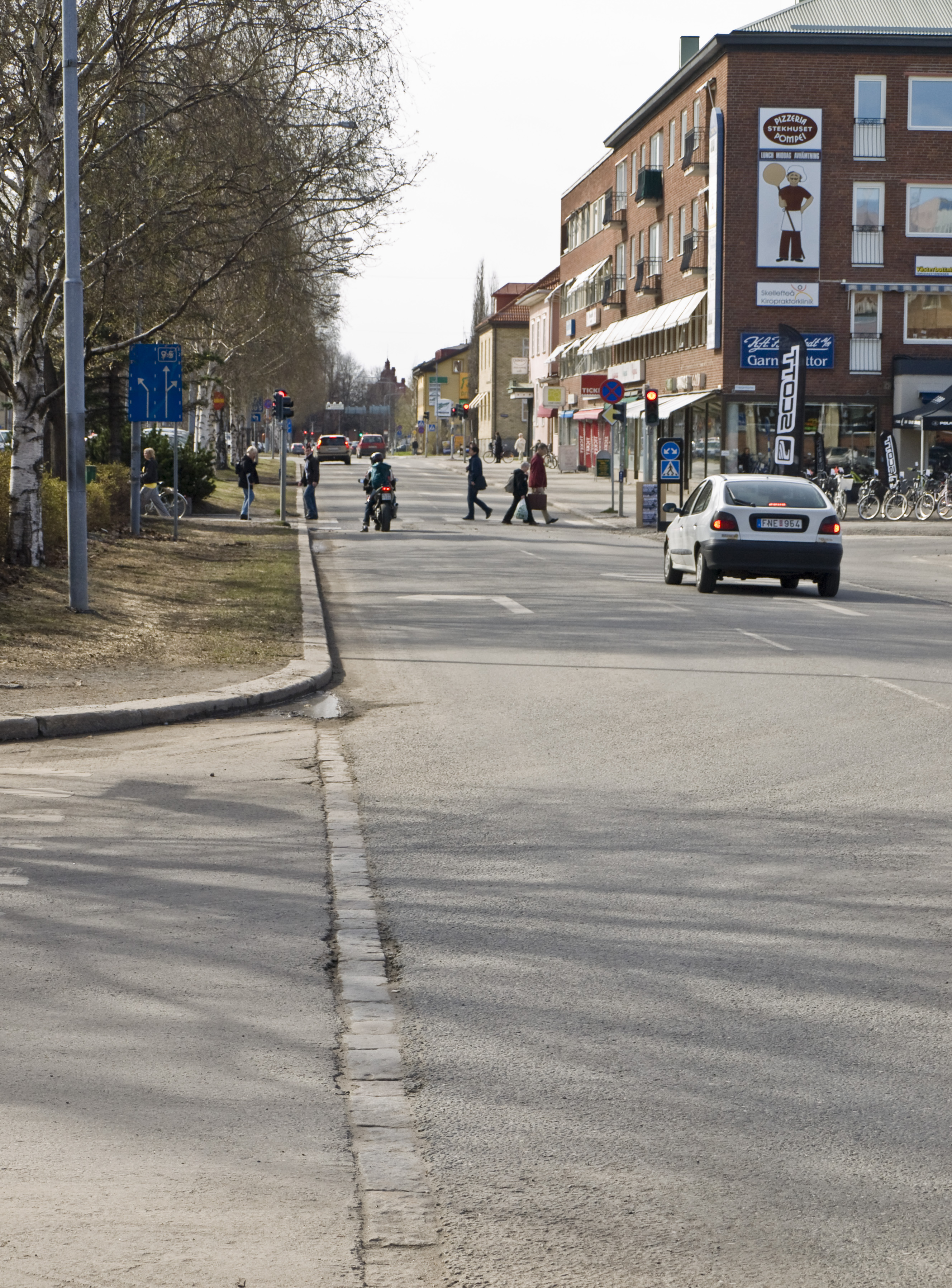 View over Kanalgatan in Skellefteå, Sweden.